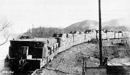 Type 94 Armored Train of the Imperial Japanese Army, with the reconnaissance waggon in front